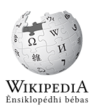 Wikipedia logo 2.0